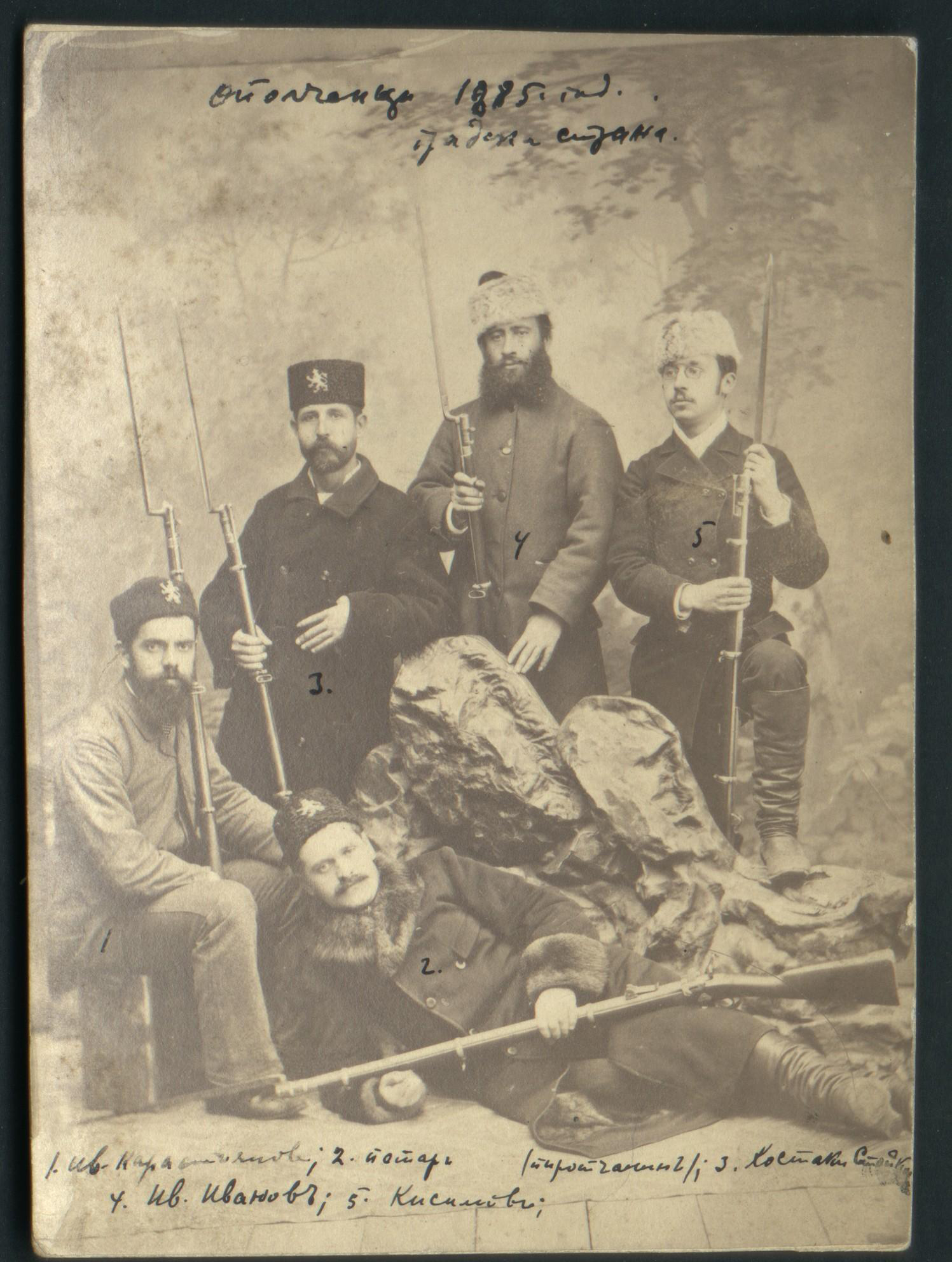 Studio portrait of volunteer combatants at the Serbo-Bulgarian War in 1885